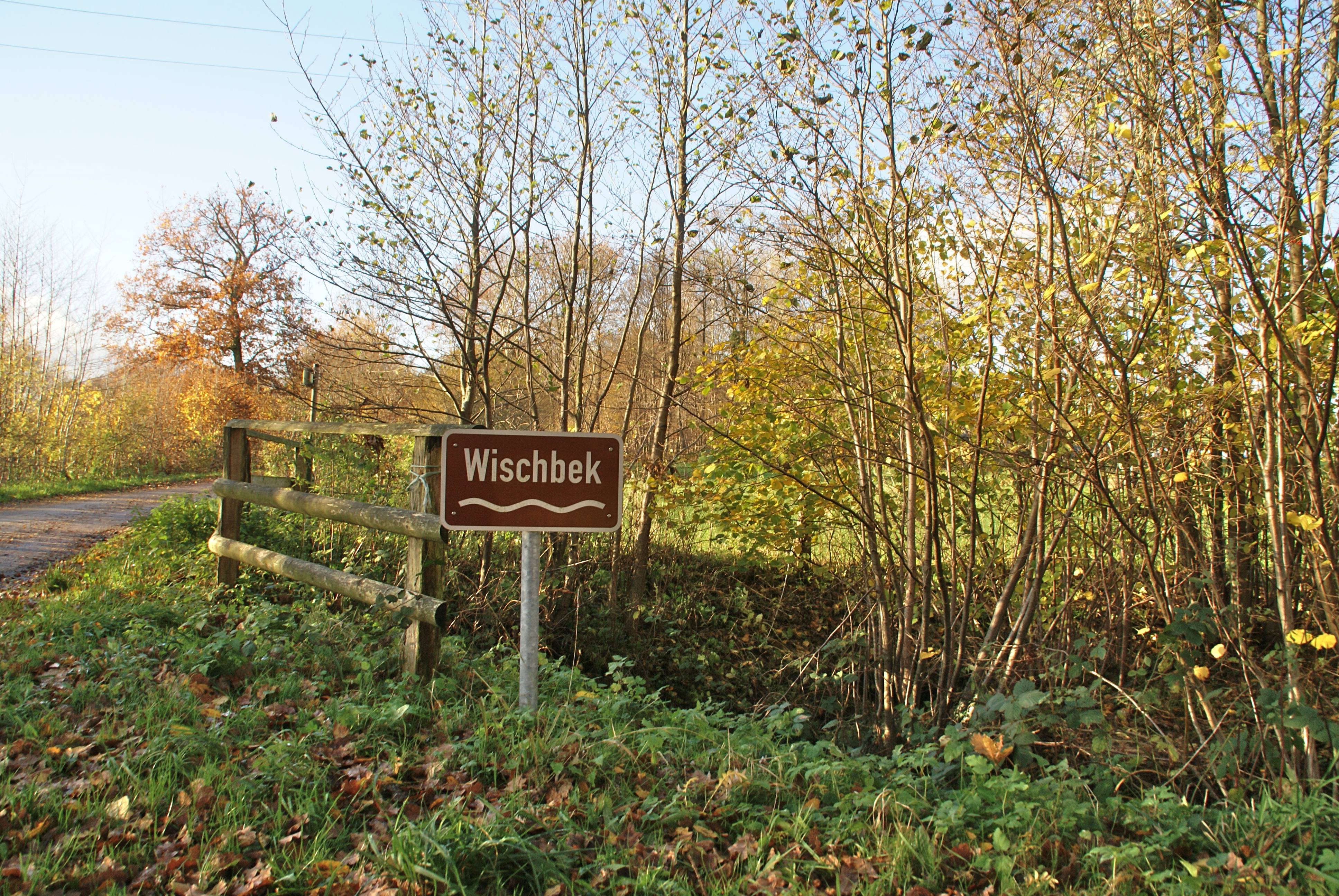 Kisdorf, Germany: The river Wischbek